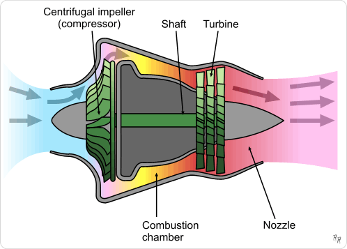 Schematic diagram of the operation of a centrifugal flow turbojet engine. Drawn using XaraXtreme by Emoscopes 03:59, 14 December 2005 (UTC)